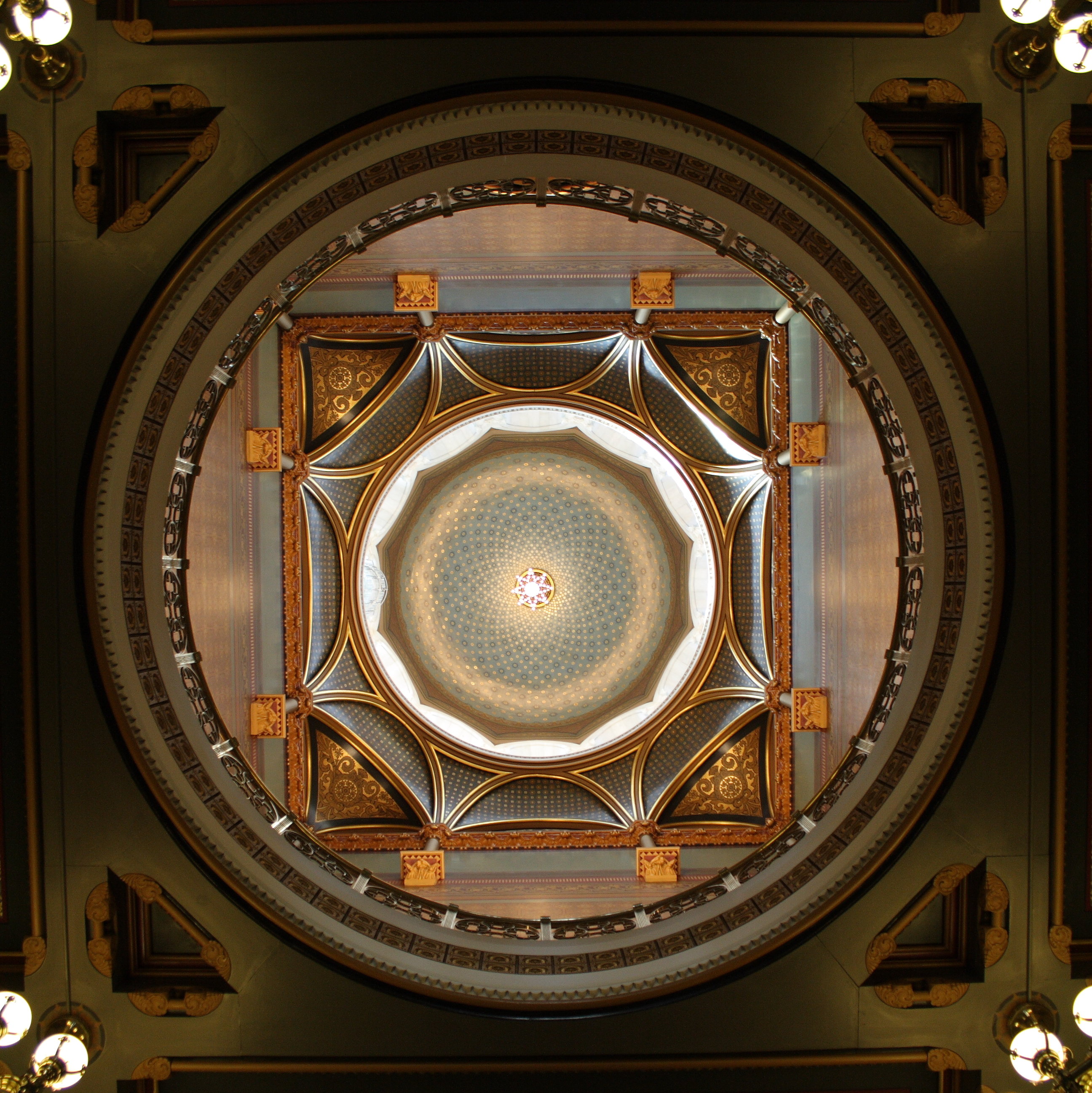 The cupola of the the Connecticut State Capitol in Hartford, Connecticut